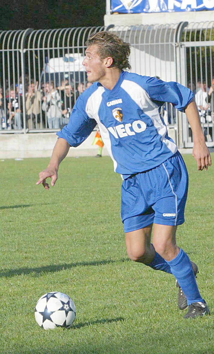 Alessandro Diamanti during Prato-Pistoiese on 19/10/2003